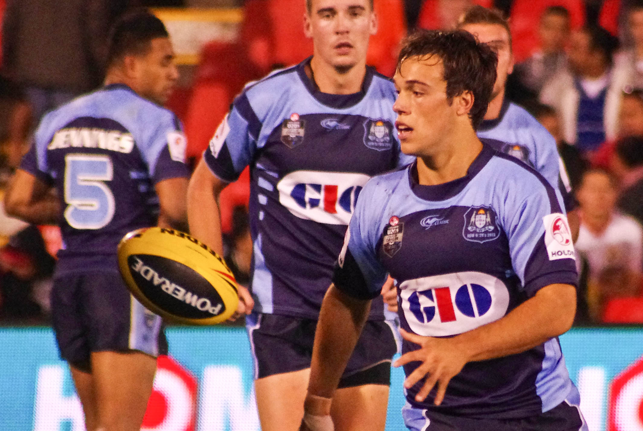 Luke Brooks play for NSW under-20s